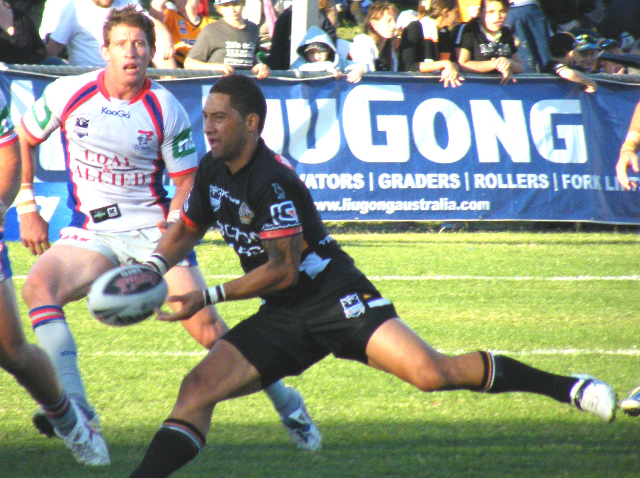 Benji Marshall of the Wests Tigers